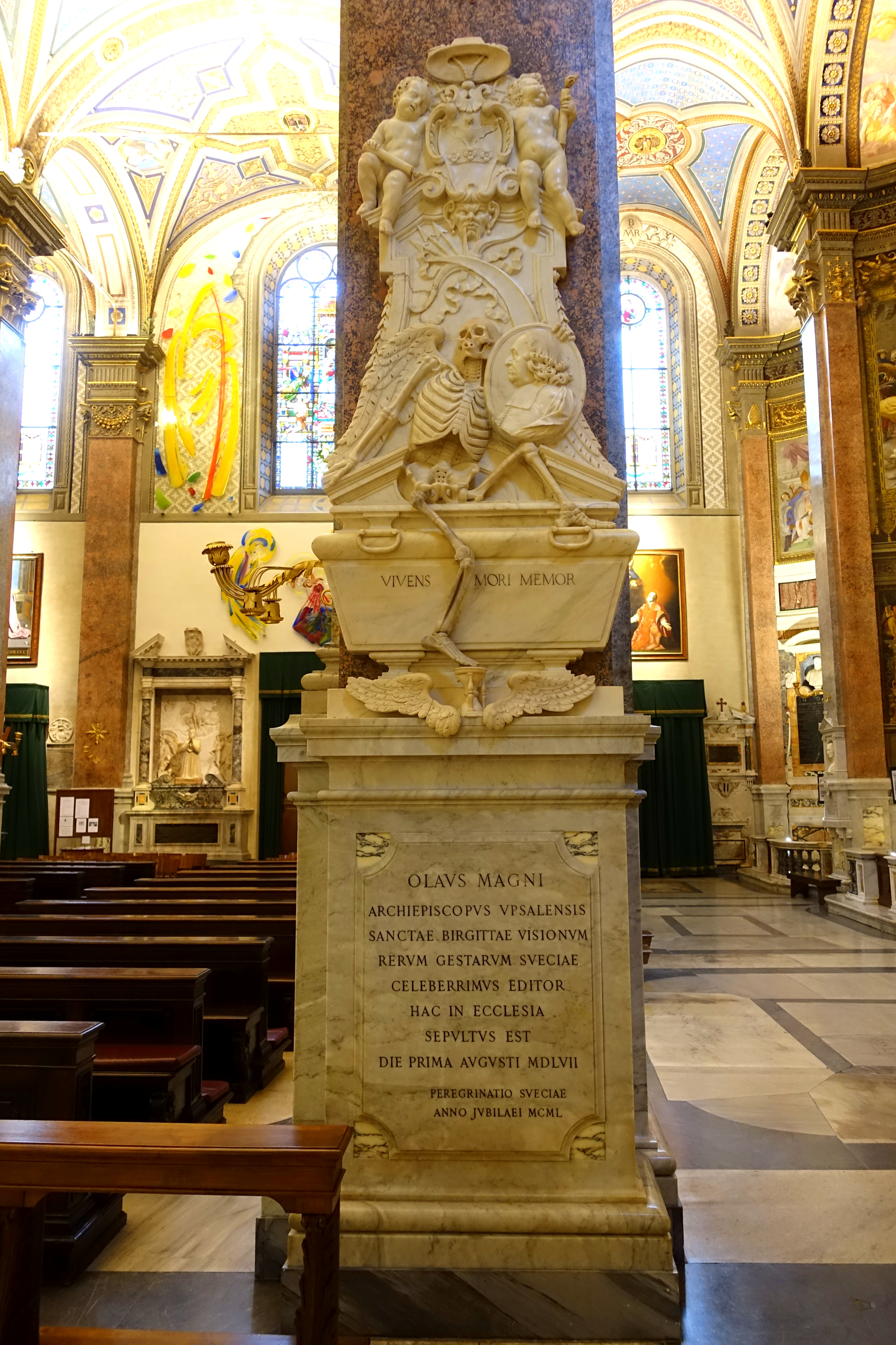 Santa Maria dell'Anima - Rome, Italy.